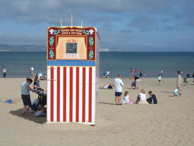 Punch and Judy, Weymouth Beach. Gone for lunch? If it's sausages again Judy will be in for some stick. That's the way to do it.